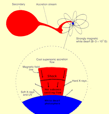 In a polar system such as the prototype AM Her, matter will overflow the Roche lobe of the companion star. However, the white dwarf possesses a strong magnetic field, which prevents the formation of a accretion disk. Instead, the overflowing material is directed by the magnetic field structure until it impacts on the surface of the white dwarf at its magnetic pole. Until impact, the material essentially free falls, thus reaching substantial velocities which are seen in the optical spectra. The collision generates a shock wave which is the source of hard (energetic) X-rays. Hard X-rays emitted in the direction of the white dwarf from the shock wave above its surface heat the local area around the pole sufficiently for the pole to become a source of intense soft (less energetic) X-rays. Since soft X-rays are coming only from the pole, rotation of the white dwarf can occult the X-ray source on its surface. Polars are generally much stronger sources of soft X-rays than hard X-rays. Most likely, this is due to uneven matter streaming. Clumps in the accretion flows would most likely cause energy to also be liberated deep within the atmosphere of the white dwarf, resulting in more soft X-ray emission. The strong magnetic field will also lock the orientation of the white dwarf relative to the companion, so that orbital and rotational periods are identical. X-ray emission from polar systems is entirely due to the accretion column and its impact, so in quiscient times when matter is not accreting onto the system, the entire system is much dimmer. Spectral lines measured at these times show the Zeeman effect which measures the magnetic field strength in the megagauss range.